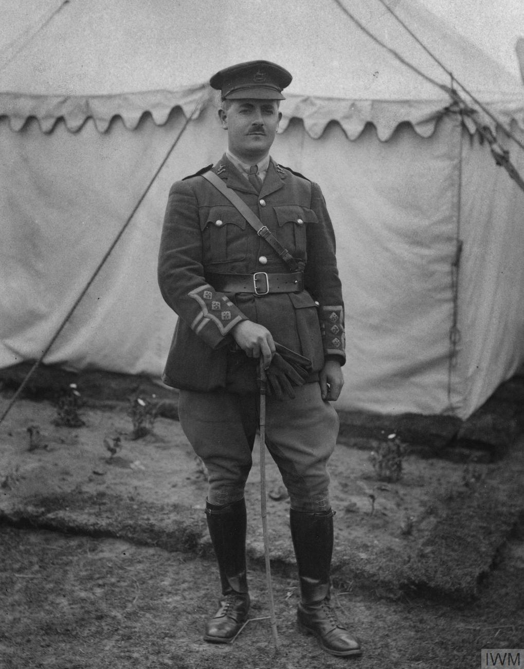 17 Battalion, The King's (Liverpool Regiment) Captain J H Joseph received his commission in 1915. He was killed in action, near Ypres, aged 32, on 31 July 1917. He is buried at the Zantvoorde British Cemetery. Faces of the First World War Find out more about this First World War Centenary project at This image is from IWM Collections.